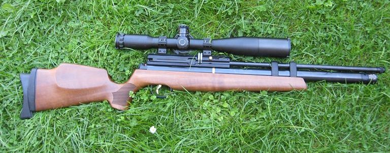 Hatsan at44